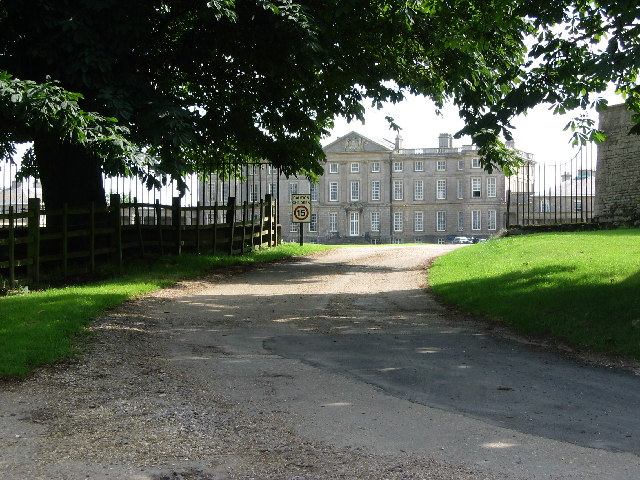 Burley on the Hill, near Oakham. Saved from dereliction several years ago, this late 17th Century grade II listed mansion and associated buildings have been successfully converted into residential accommodation.